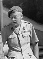 Portrait of Sir Noel Mason-Macfarlane. Downloaded from the Imperial War Museum Website. Author: Taken by an official photographer; site says "Ministry of Defence Second World War II Official Collection". IWM website asserts :en:Crown Copyright|Crown Copyright applies. However as a work for the British Government completed prior to 1955 this may not be the case.